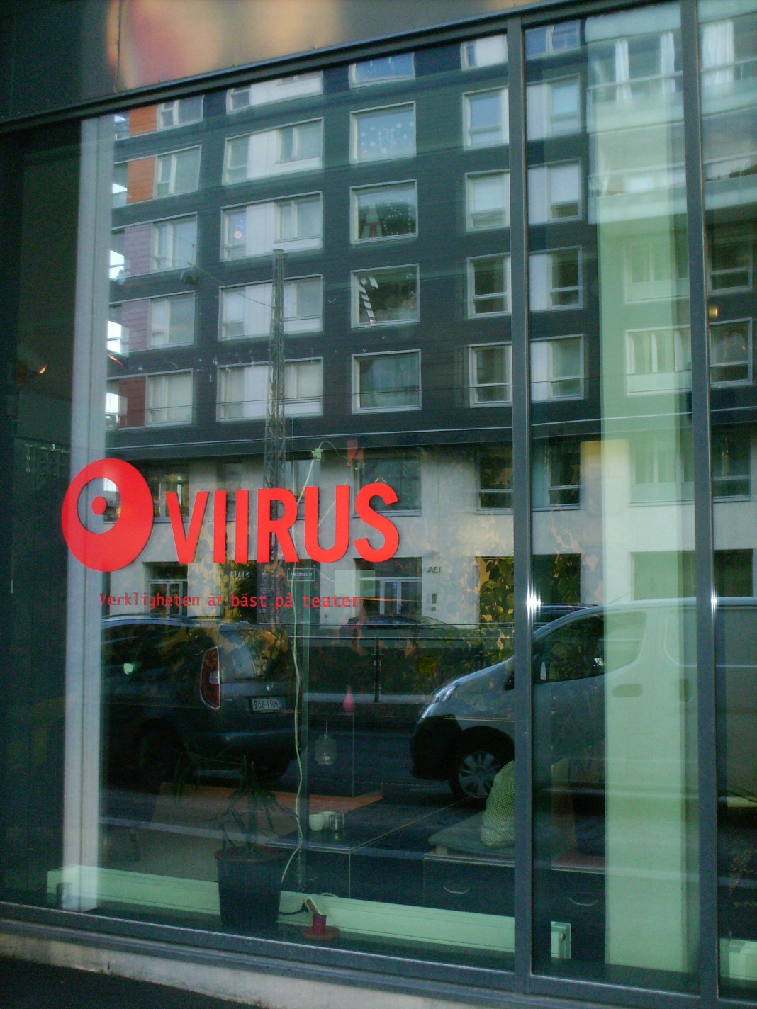 Photograph of the façade of Theater Viirus in Jätkäsaari (Busholmen), Helsinki, Finland. The tagline reads: “Verkligheten är bäst på teater”, Reality is at its best in a theater.